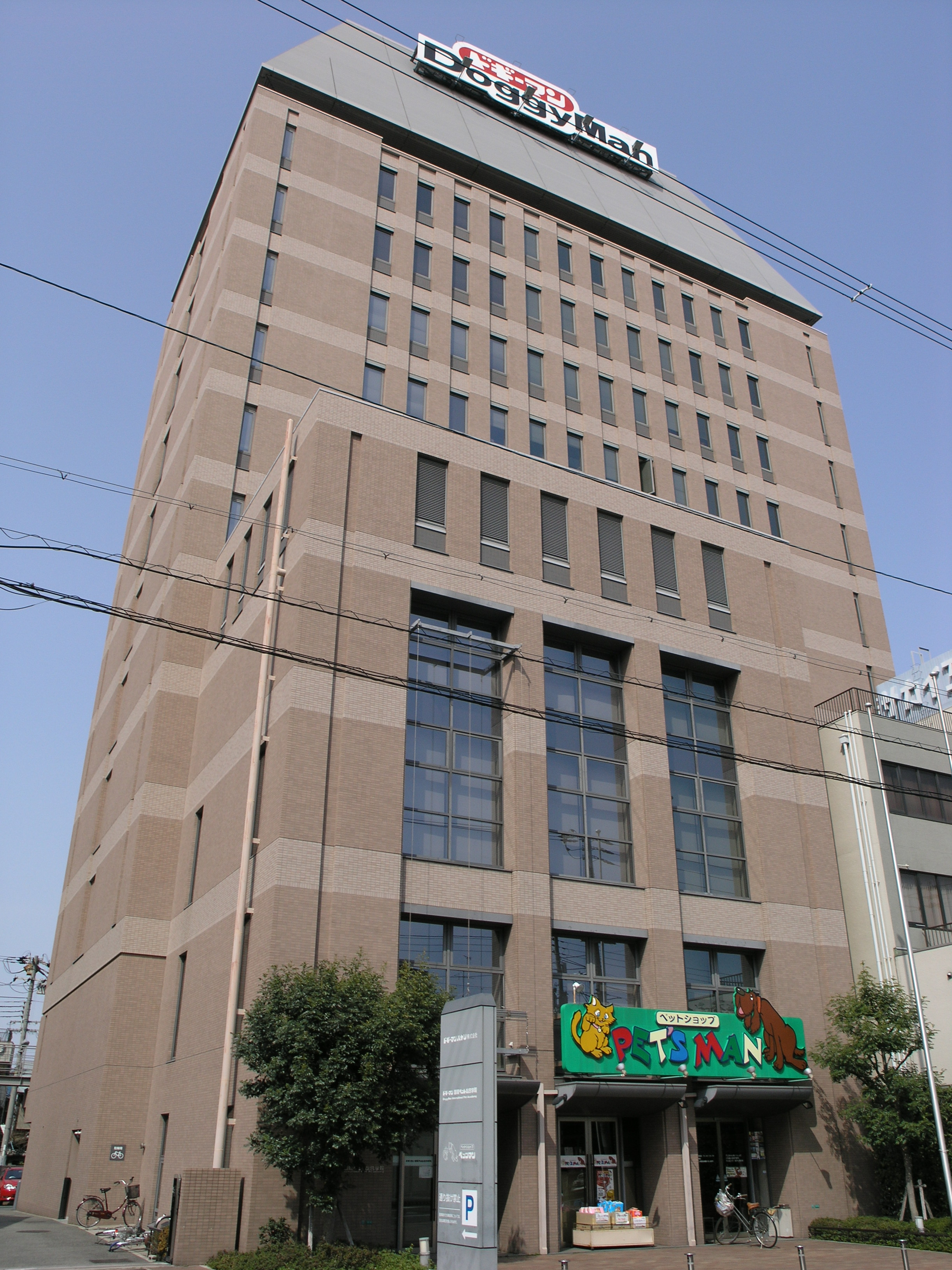 Headquarters of Doggyman H.A.Co.,Ltd. in Higashinari-ku, Osaka, Japan